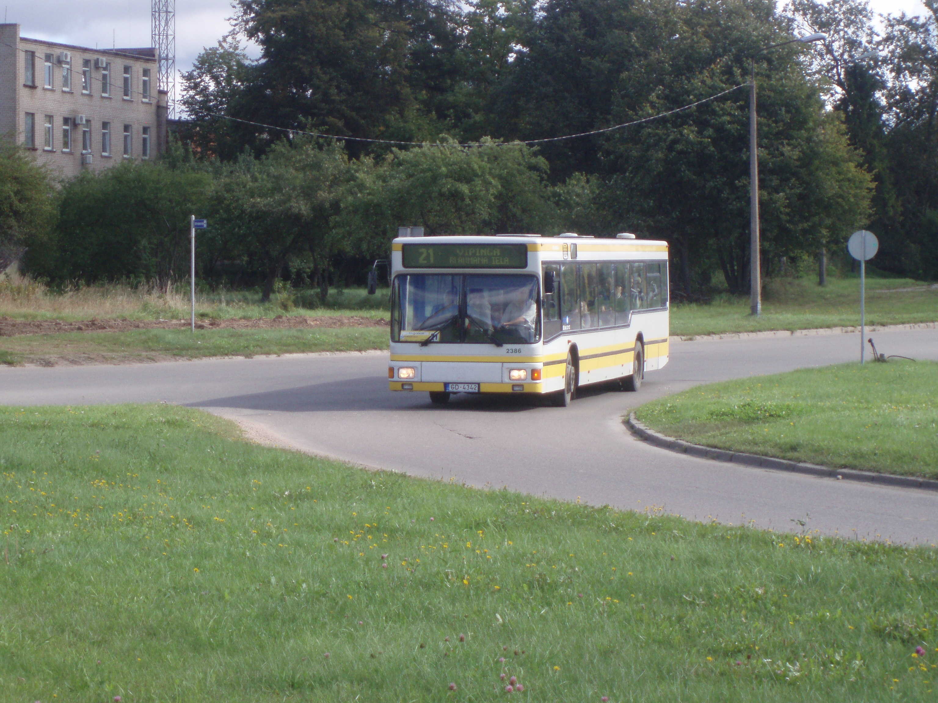 Bus 21 in Rēzekne, Latvia.